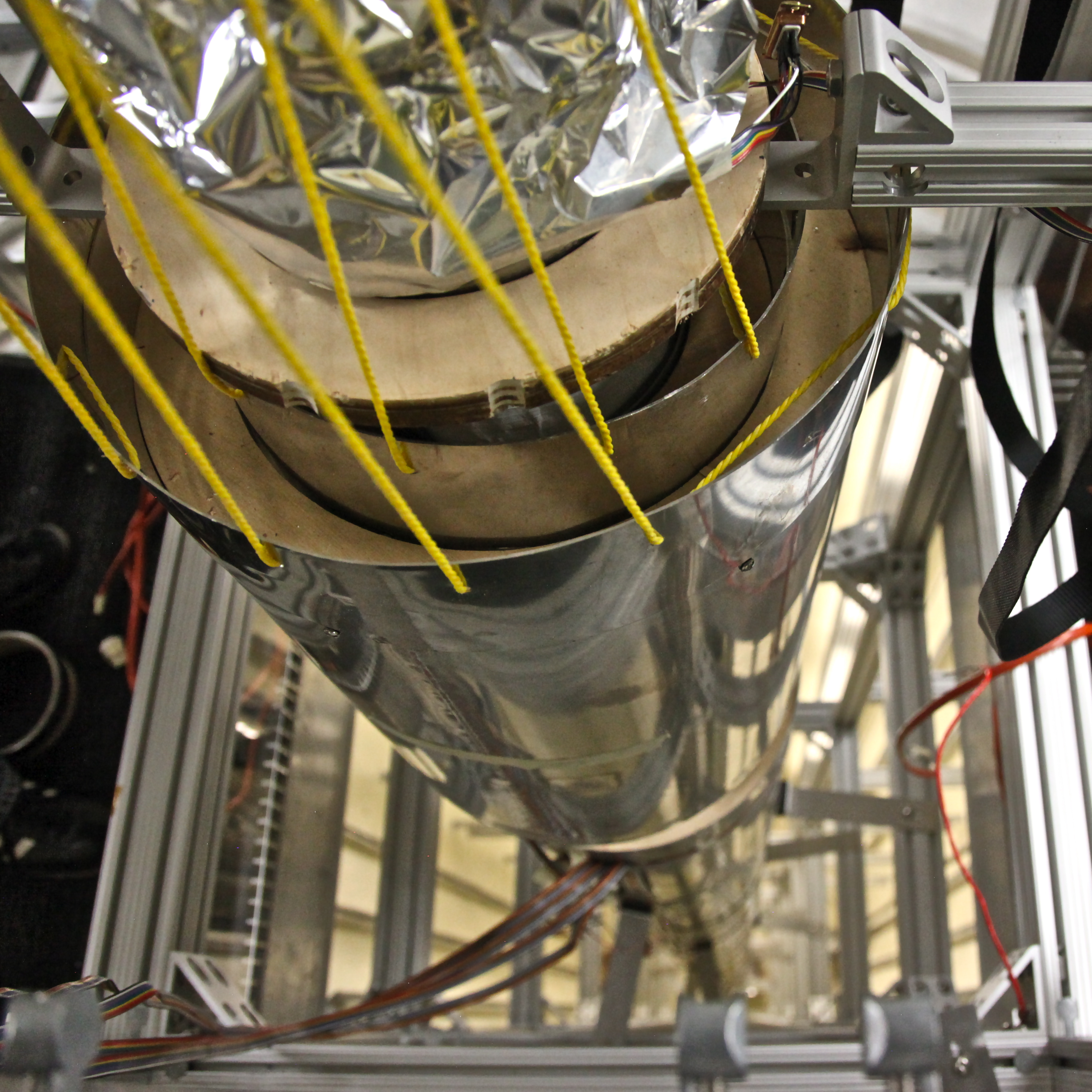 On Sunday, I toured the 30 ft. tall atom fountain in the bowels of Stanford... an atom interferometer that will test the equivalence principle of Einstein’s theory of general relativity…. Does everything experience the same local gravitational pull form the Earth, regardless of mass? It's the working end of Puzzle 94 From the bottom of this vertical tube, Rb85 and Rb87 atoms shoot up and then fall back by gravity in a race, like the hammer and feather on the moon, but with insane precision. Their position is only resolved by observation on their return. At apogee near the top of this photo, they are in a cloud spread over 10 centimeters of superposition. Jason Hogan and team hopes to detect differences in gravity to 15 or maybe 16 decimal places. If they see a difference, it could suggest a fifth fundamental force (beyond electromagnetism, gravity, strong and weak forces) that operates over long distances (meters to Earths). Interestingly, this work started in Steven Chu’s group (now head of the DOE) using a 10x smaller cesium fountain. And a similarly short cesium fountain is the NIST atomic clock (the primary time and frequency standard in the U.S.).